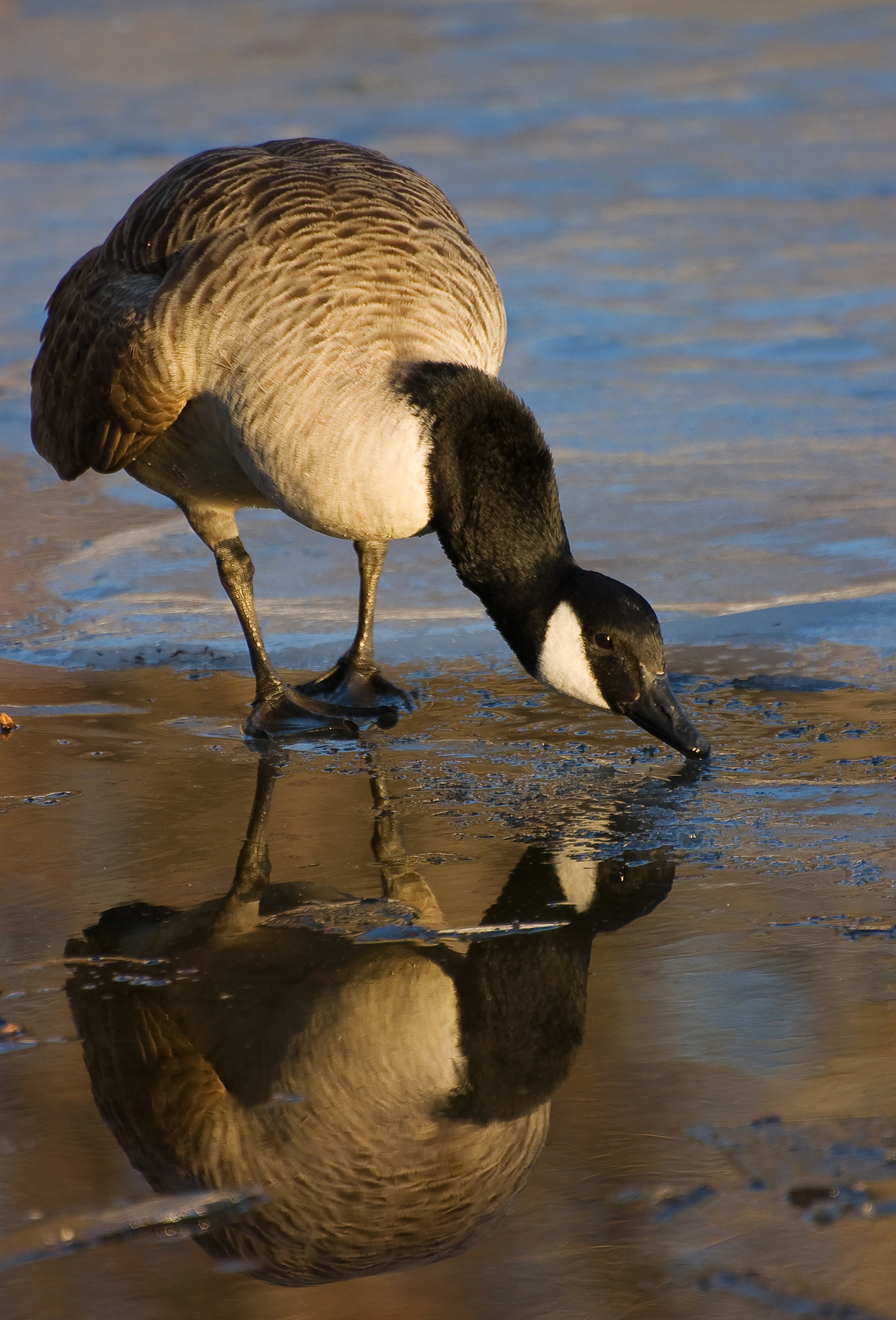 A Canada Goose in Massachusetts.